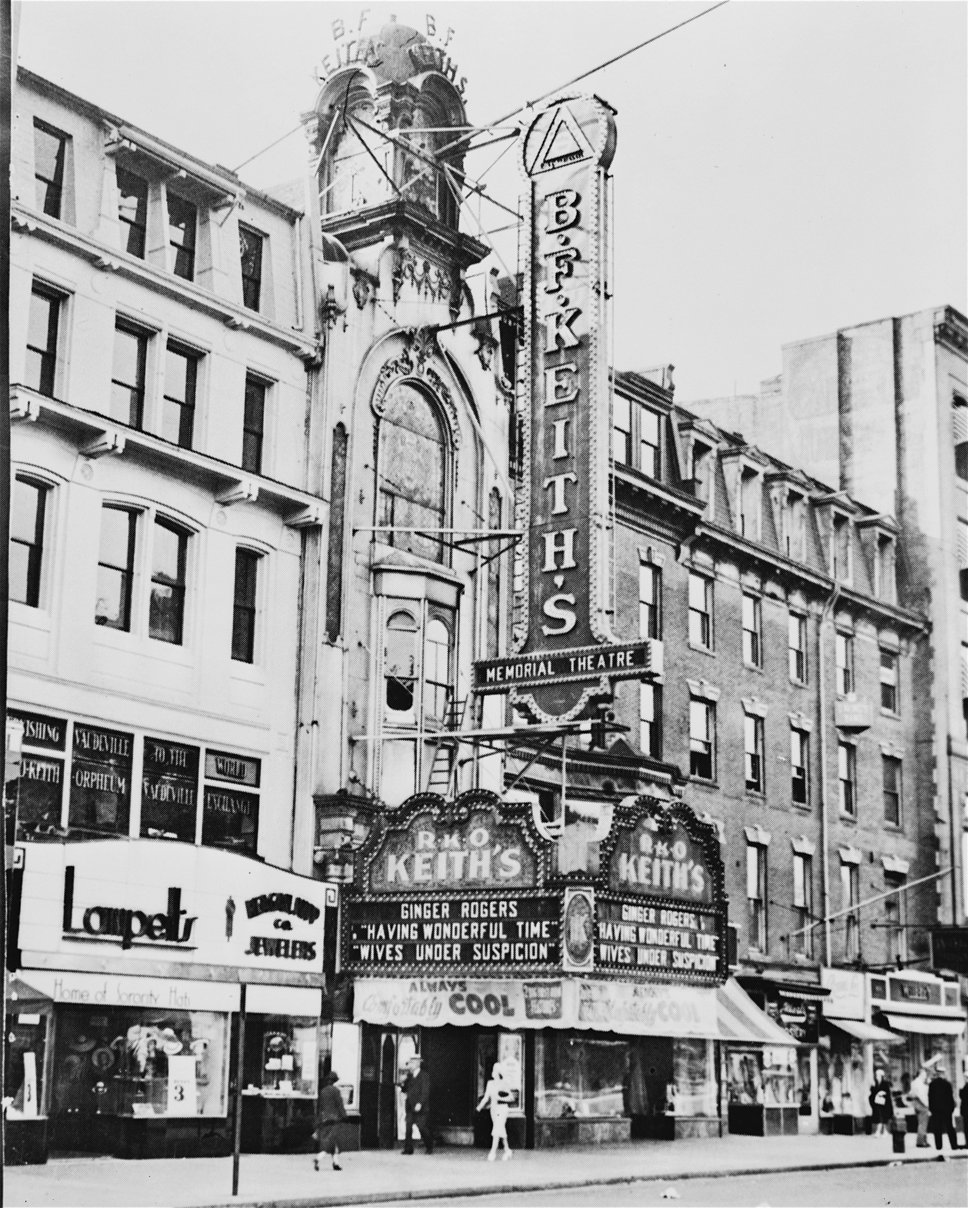 Tremont Street entrance of B. F. Keith Memorial Theatre, whose main entrance was at 539 Washington Street, Boston. From the Historic American Buildings Survey, Library of Congress, Prints and Photograph Division, Washington, D.C. 20540 USA. Survey number HABS MA-1078. The theater is showing Having Wonderful Time (1938) and (1938).